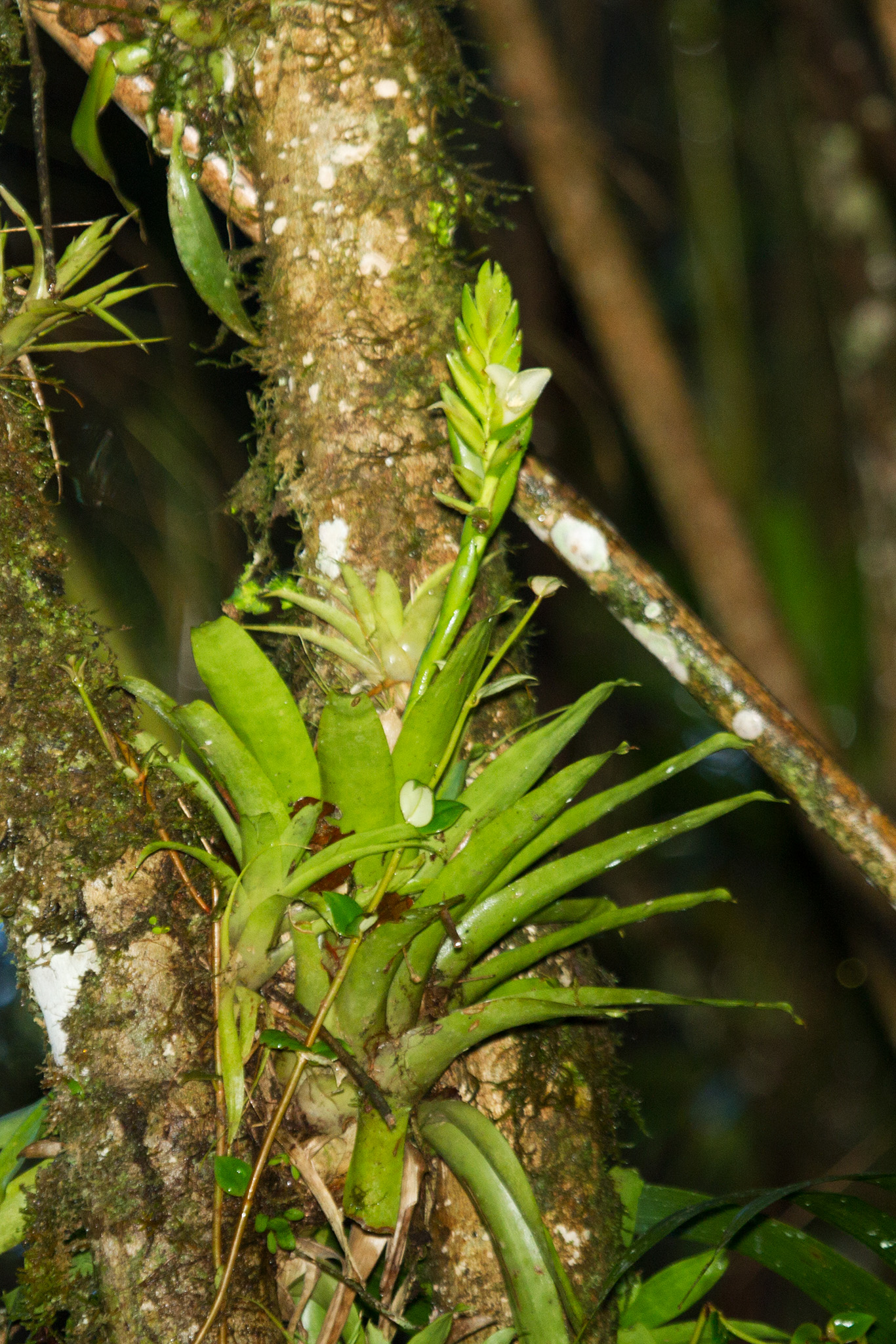 São Paulo State - Brazil